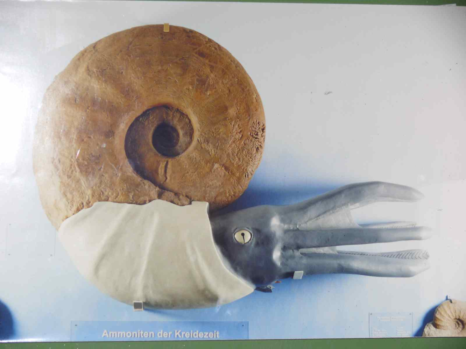 Fossil Parapuzosia seppenradensis specimen with reconstruction of the animal